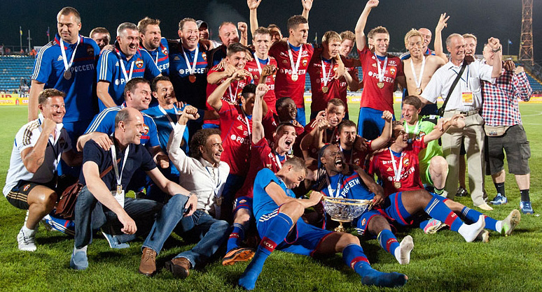 CSKA Moscow celebrates Russian Super Cup 2013 victory